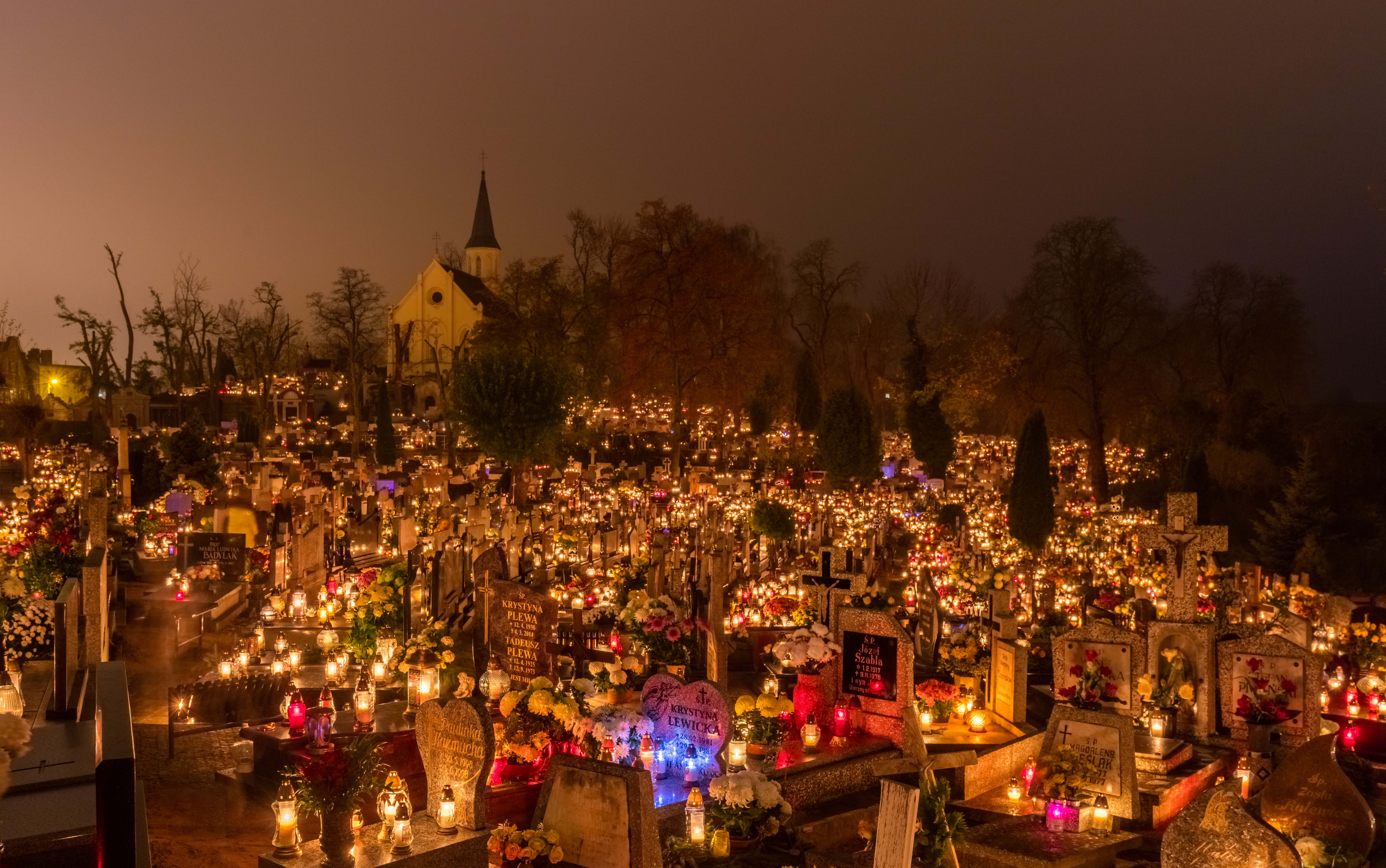 All Saints Day, Holy Cross Cemetery in Gniezno, Poland